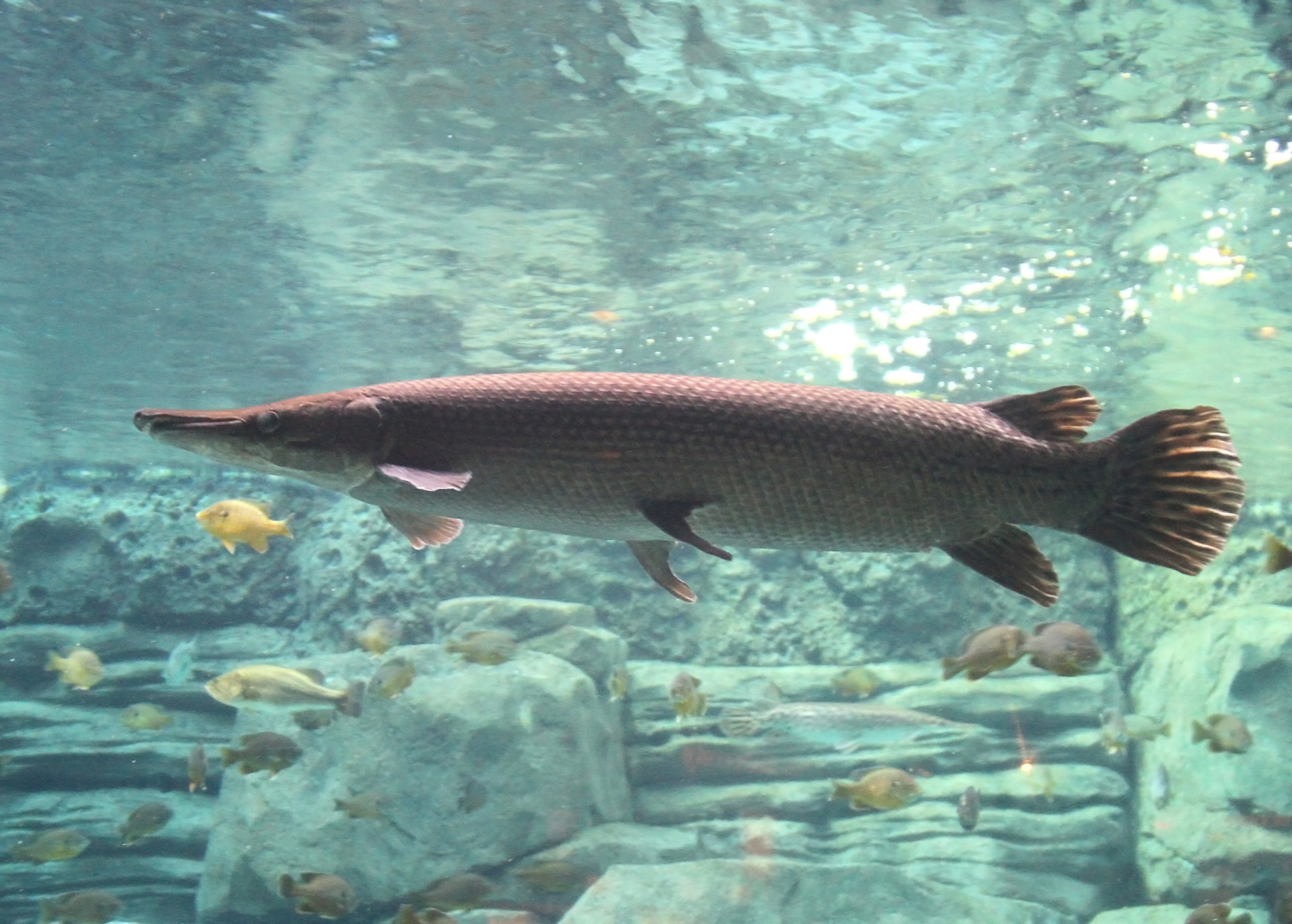 Alligator gar - taken at the Cincinnati Zoo.